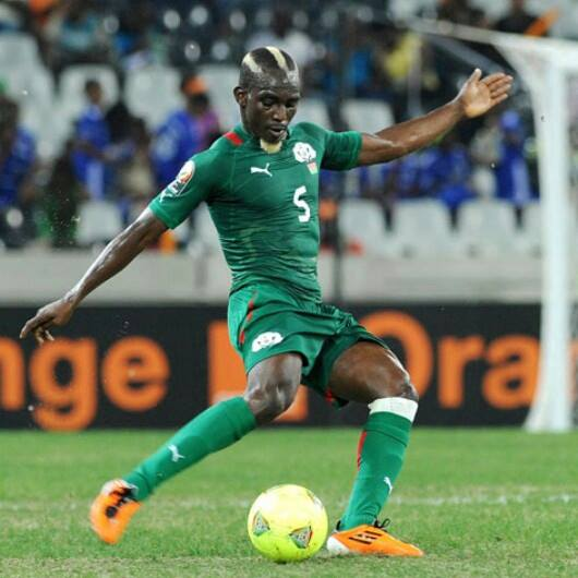 Mohamed Koffi in a match against Ghana in 2013 African Cup of Nations. 6 February 2013 Mbombela Stadium, South Africa Photographer email id